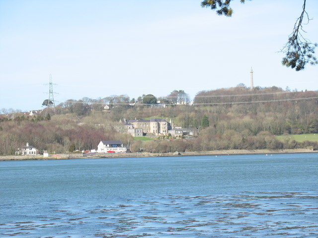 Plas Llanfair This was one the homes of the Paget family, also owners of Plas Newydd. Plas Llanfair housed the TS Indefatigable between 1944 and 1995. The column on the right celebrates the career of Field Marshall Henry Paget, the first Marquis of Anglesey, who was second in command to Wellington at Waterloo. During the battle he was wounded. He is reported to have said to Wellington 'By Jove, Sir, I've lost my leg'. The Iron Duke glancing over replied 'By jove, Sir, so you have'.